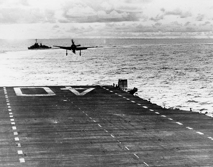 A Grumman F8F-1 Bearcat fighter landing on the aircraft carrier USS Tarawa (CV-40) in November 1948. Note the plane guard destroyer in the background. The Tarawa with Carrier Air Group One (CVG-1) embarked was on a world cruise from the U.S. West Coast the the U.S. East Coast from 1 Oct 1948 to 21 Feb 1949. The two fighter squadrons of CVG-1 flew the F8F-1, VF-11 Red Rippers and VF-12 Flying Ubangis.